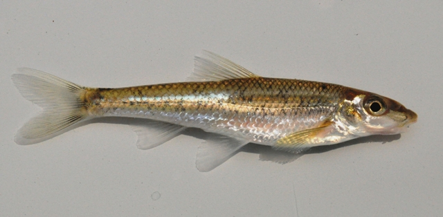 The Gravel Chub or Erimystax x-punctatus grow to around 10 cm and is found in the gravel of small rivers and streams.